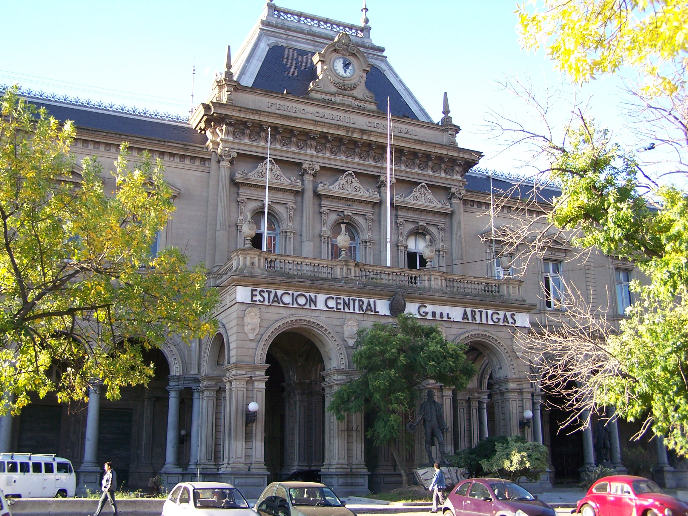 The old central station of Montevideo (Uruguay)